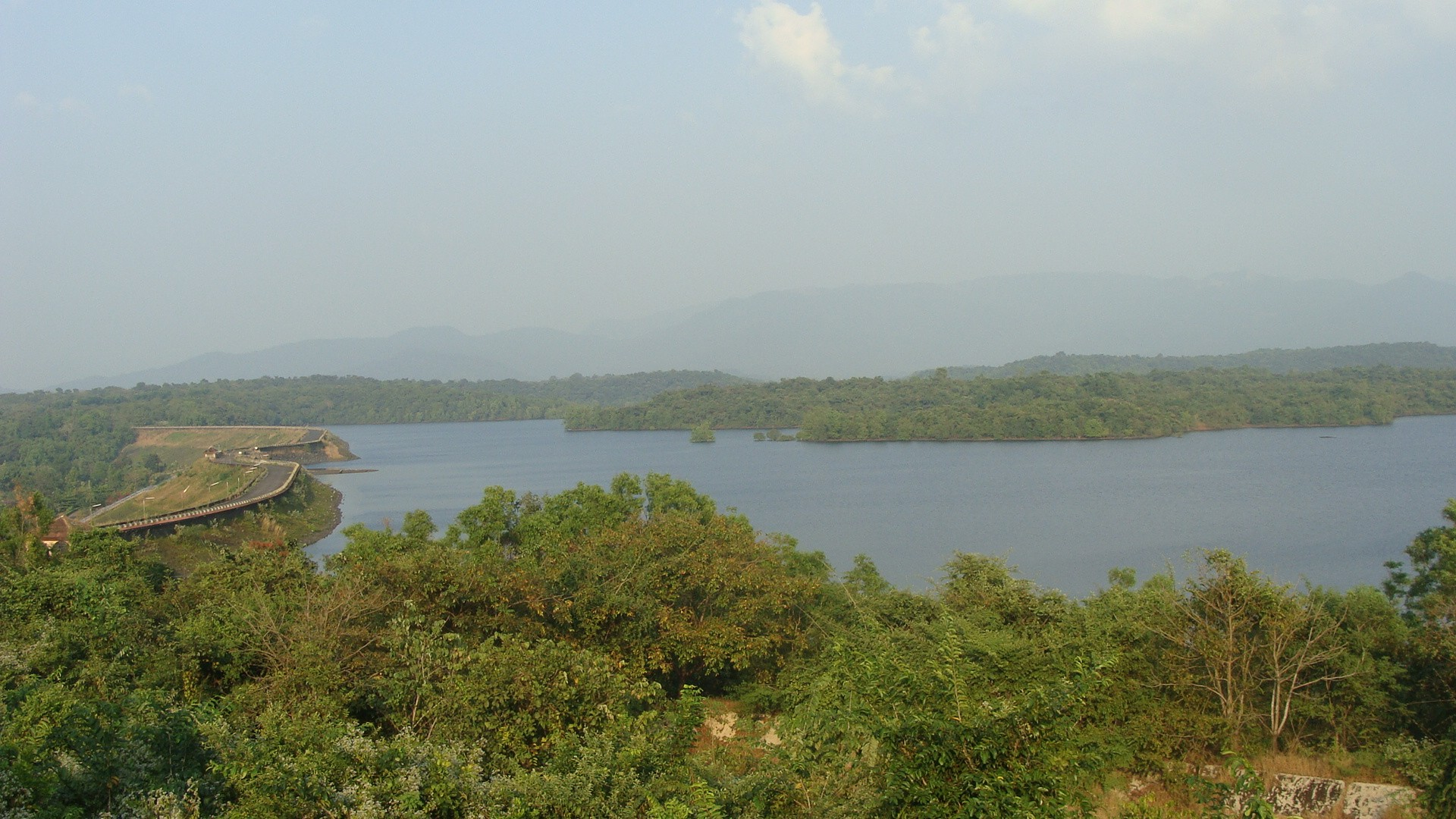 Full Reservoir View of Salaulim Dam, Goa